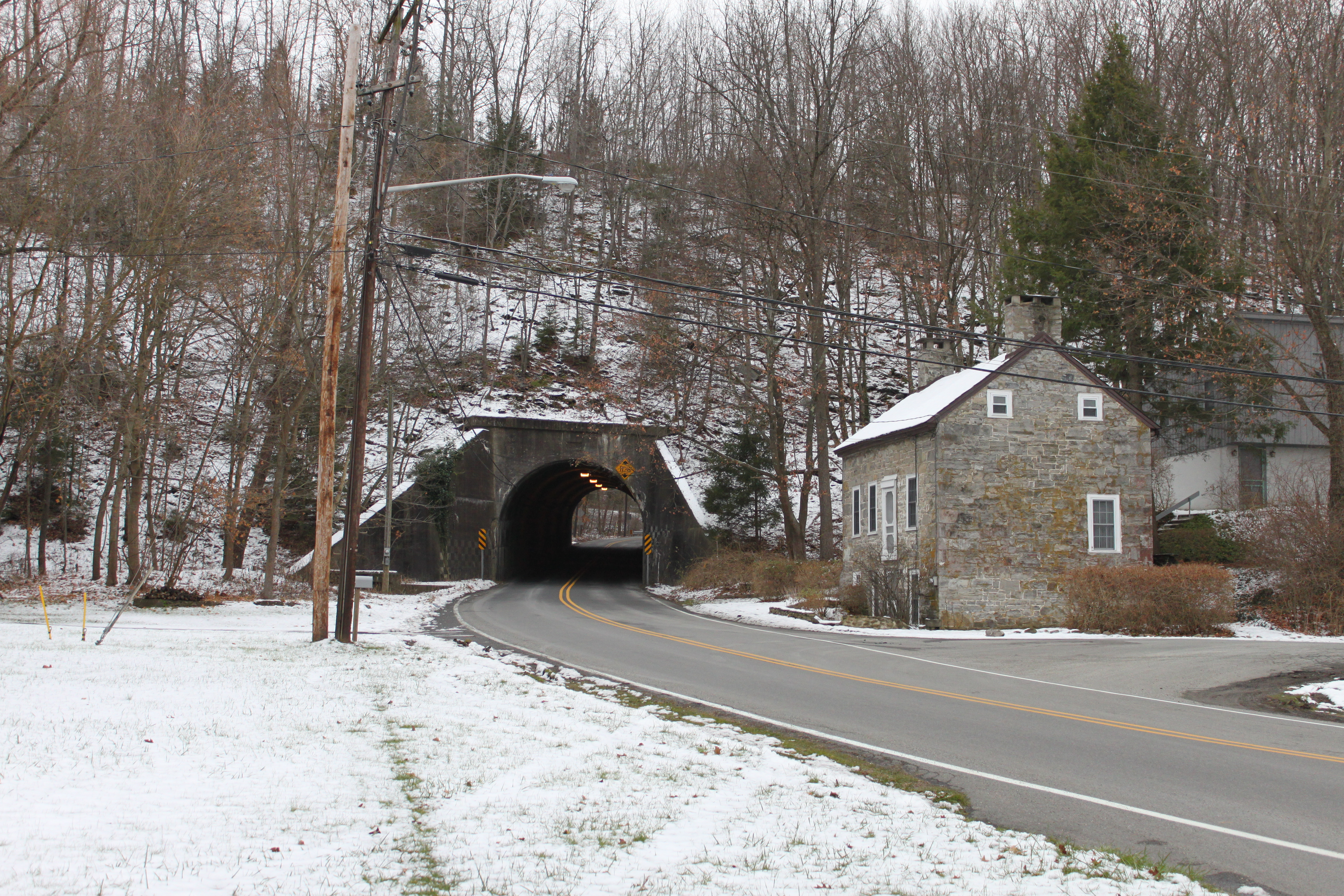 Vail Filll on Lackawanna Cut-Off taken 01 Dec 2012.WallyFromColumbia (talk) 22:44, 1 December 2012 (UTC)